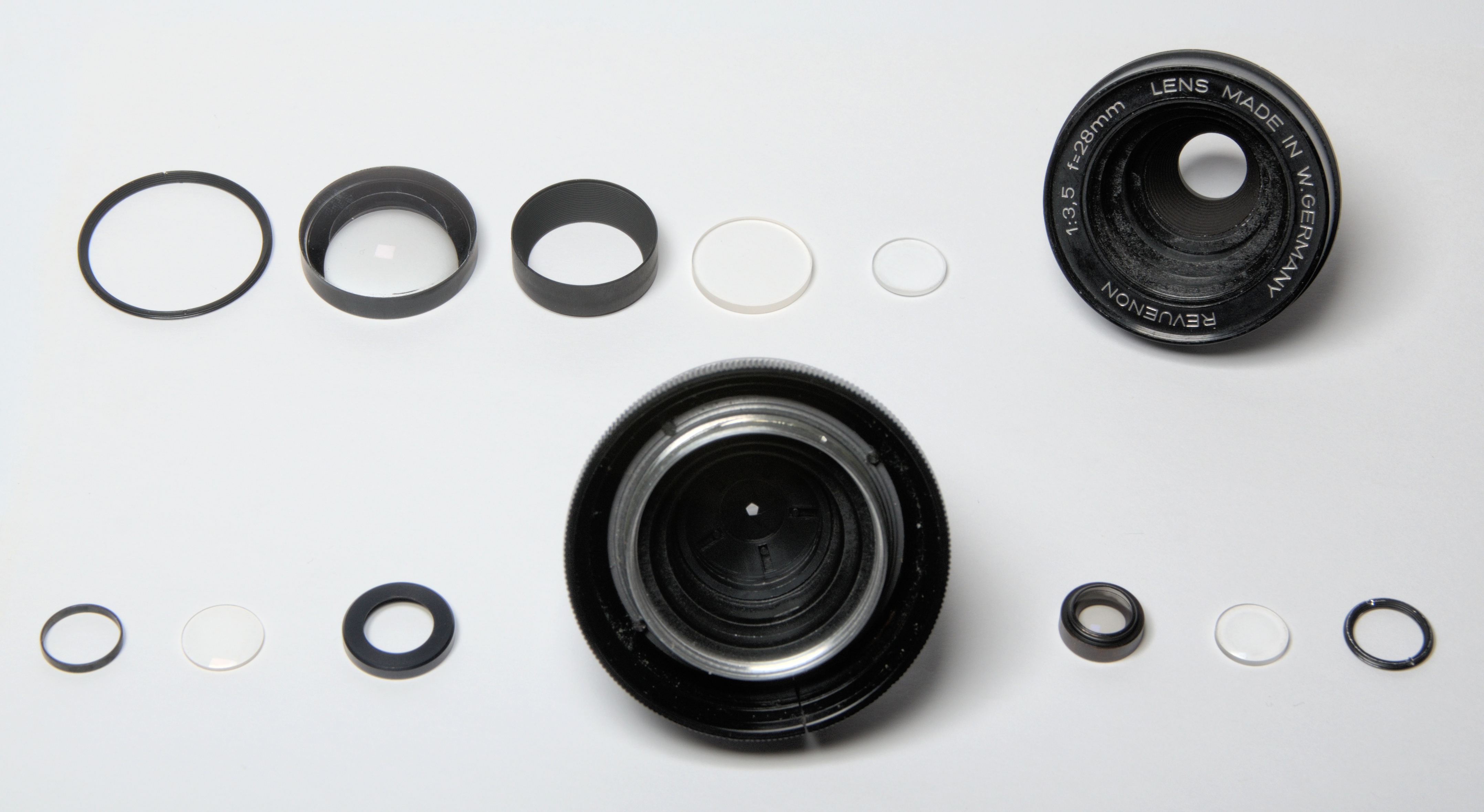 A dismantled Revuenon 28mm 1:3,5 M42 mount lens.